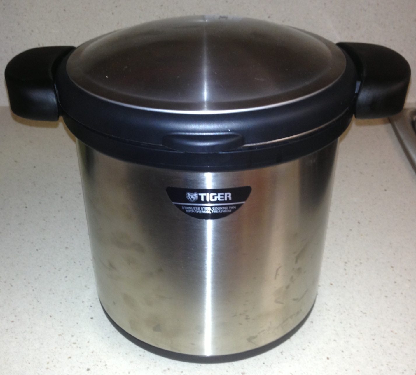 The picture shows a vacuum flask cooker with the pot inside.